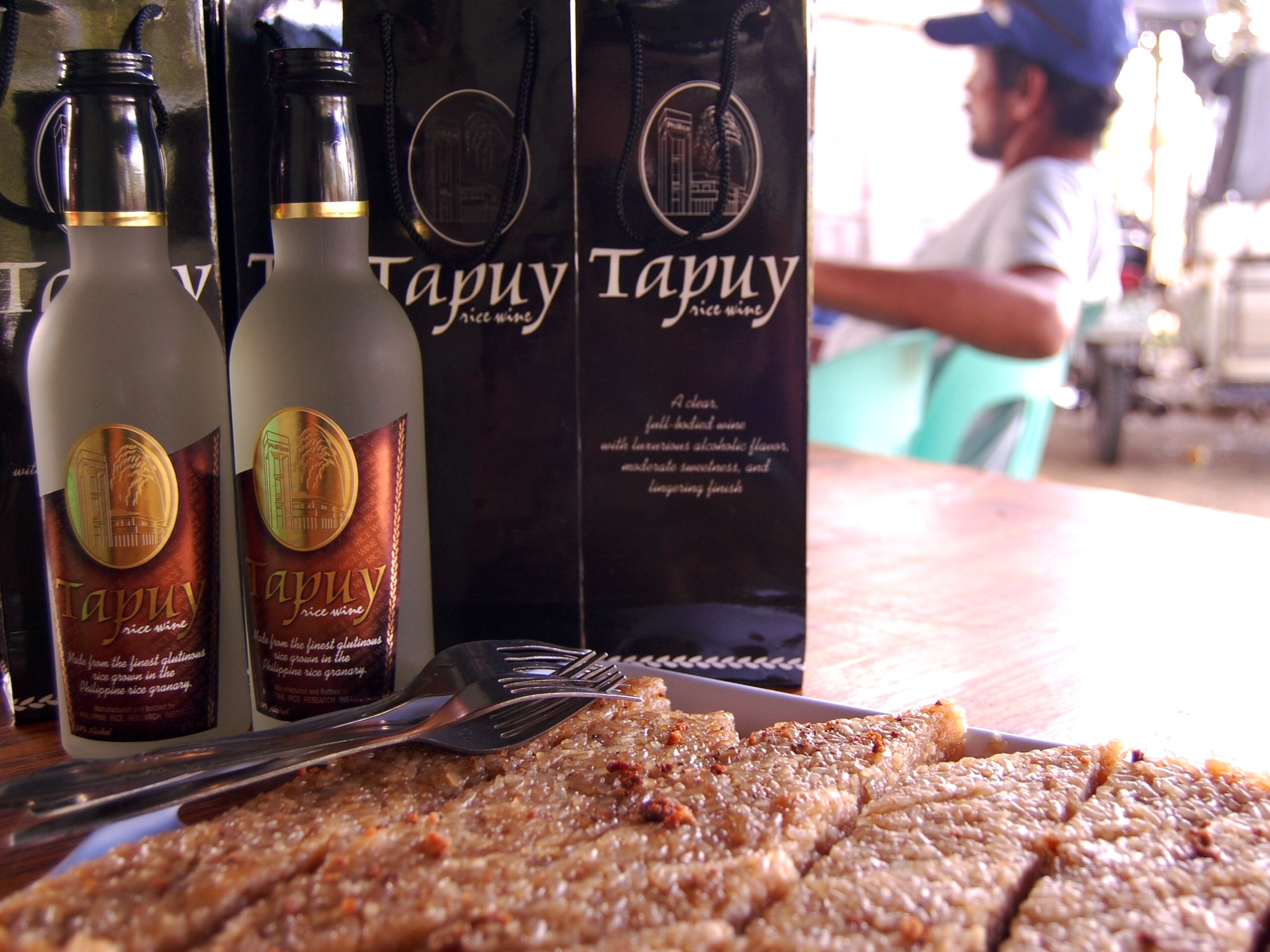 Tapuy is the ceremonial rice wine of the Cordilleras and sometimes referred to as Filipino sake. The biko or rice cake on the other hand was made from glutinous rice boiled in coconut milk and brown sugar. They are a great combination. Promise. :-D